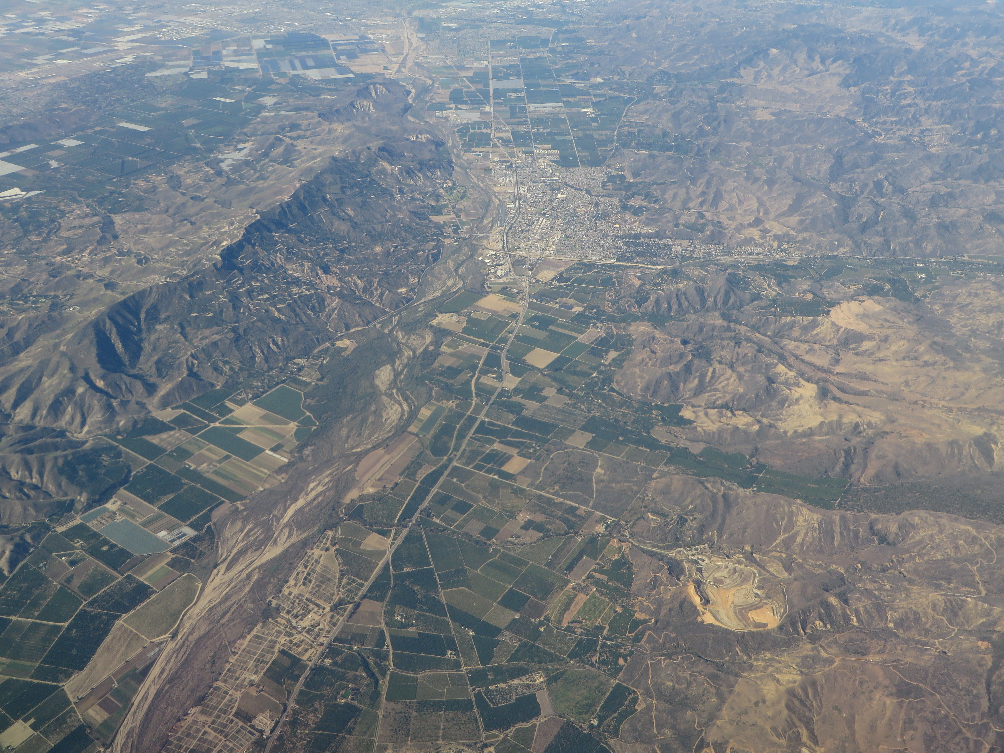 Santa Paula is a city in Ventura County, California, United States. Situated amidst the orchards of the fertile Santa Clara River Valley, the city advertises itself to tourists as the "Citrus Capital of the World." Santa Paula was one of the early centers of California's petroleum industry. The Union Oil Company Building, the founding headquarters of the Union Oil Company of California in 1890, now houses the California Oil Museum. The population was 29,321 at the 2010 census, up from 28,598 at the 2000 census. Santa Paula's economy is primarily agriculturally based, originally focusing on the growing of oranges and lemons. Santa Paula's mediterranean climate combined with an estimated 20 feet (6.1 m) of topsoil have made it a prime location for growing citrus. Avocado has also become a major crop and an avocado was added to the city's official seal (Calavo Growers, Inc. is headquartered here). The Santa Clara Valley represents one of the best preserved examples of a mature Southern California landscape of citrus groves.